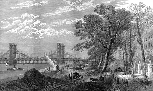 Construction work on the Chelsea Embankment and Albert Bridge, London